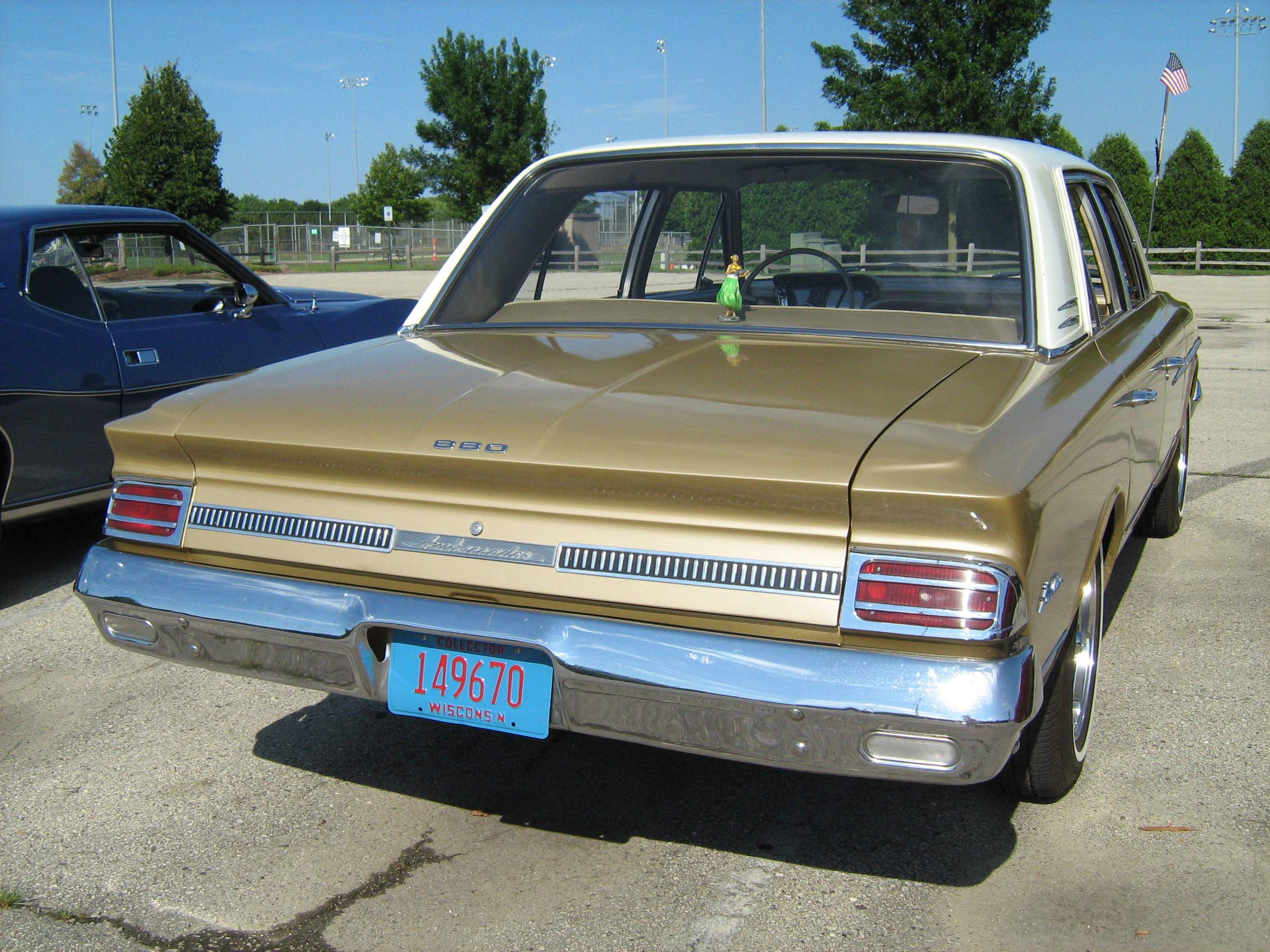 1963 Rambler Ambassador 880 (this was the lowest trim model in the line) four-door sedan - rear view. Built by American Motors Corporation (AMC) and finished in gold with white top. Photographed in Kenosha, Wisconsin, USA.